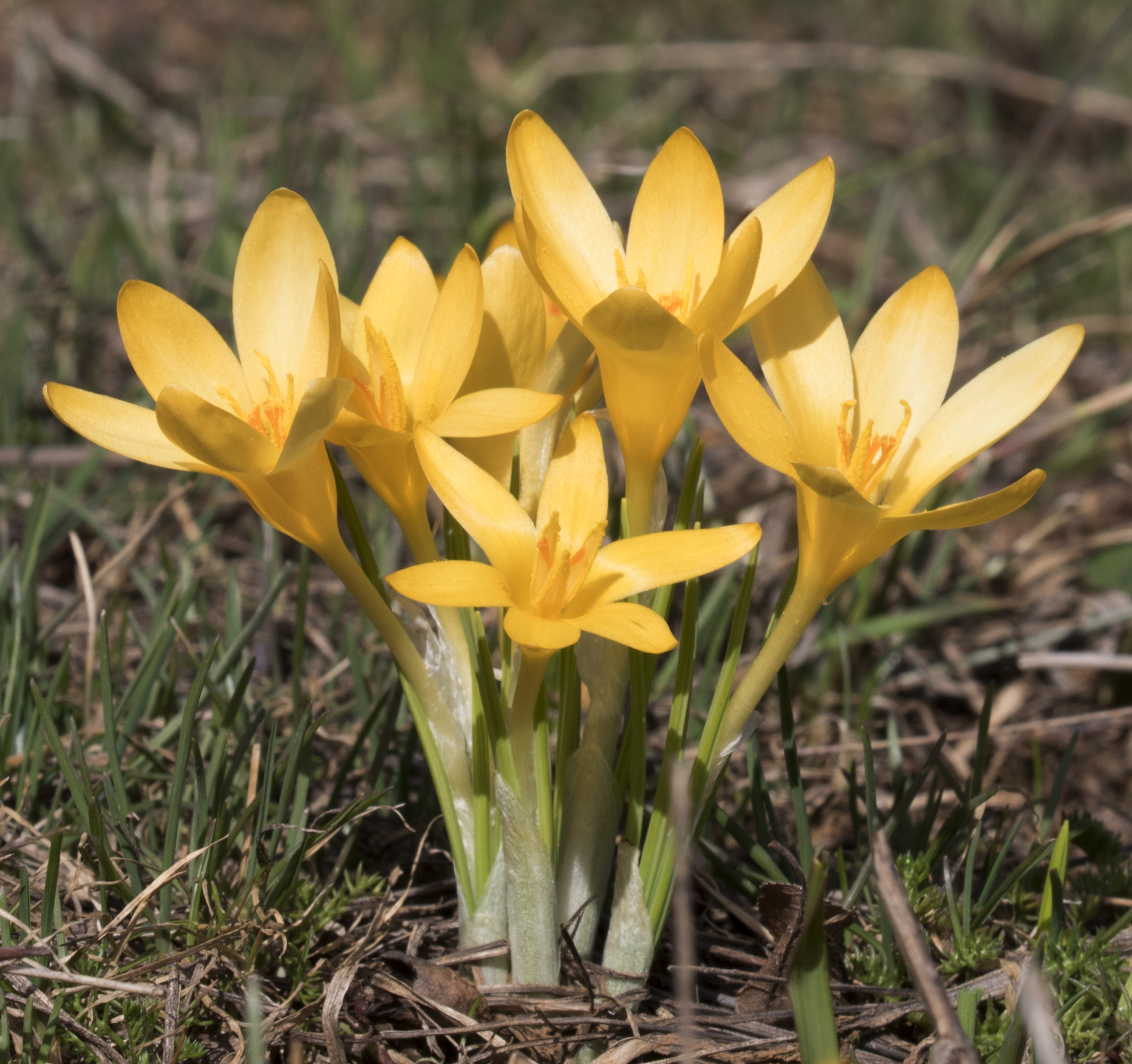 Snow crocus or golden crocus (Crocus chrysanthus) in Saksağan Crossing. Saimbeyli - Adana, Turkey.